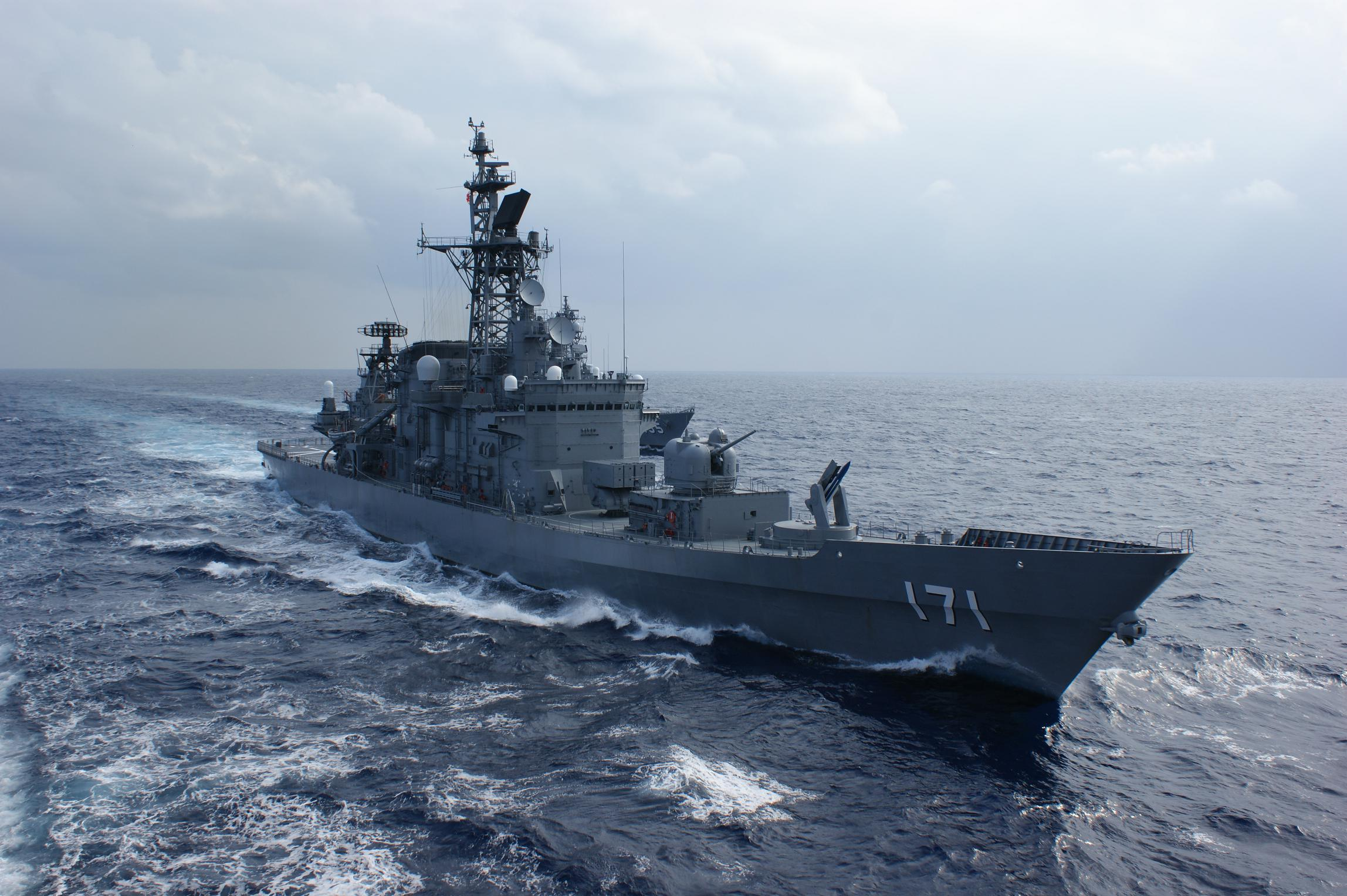 PACIFIC OCEAN (Dec. 6, 2010) The Japan Maritime Self-Defense ship JS Hatakaze (DDG-171) is participating in exercise Keen Sword 2011. (U.S. Navy photo by Information Systems Technician 1st Class Benjamin Wooldridge/Released)